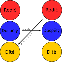 Crossed Transactions, of Transactional analysis